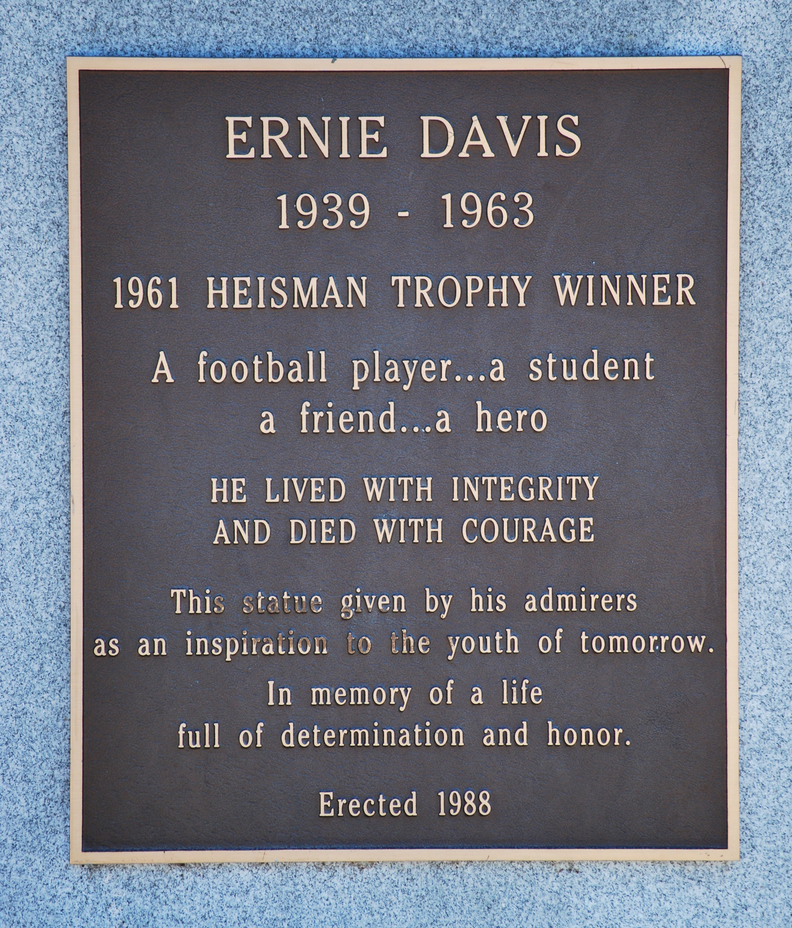 Plaque on Ernie Davis' statue at Ernie Davis Middle School中文（台灣）: 在厄尼·戴維斯紀念雕像的牌匾